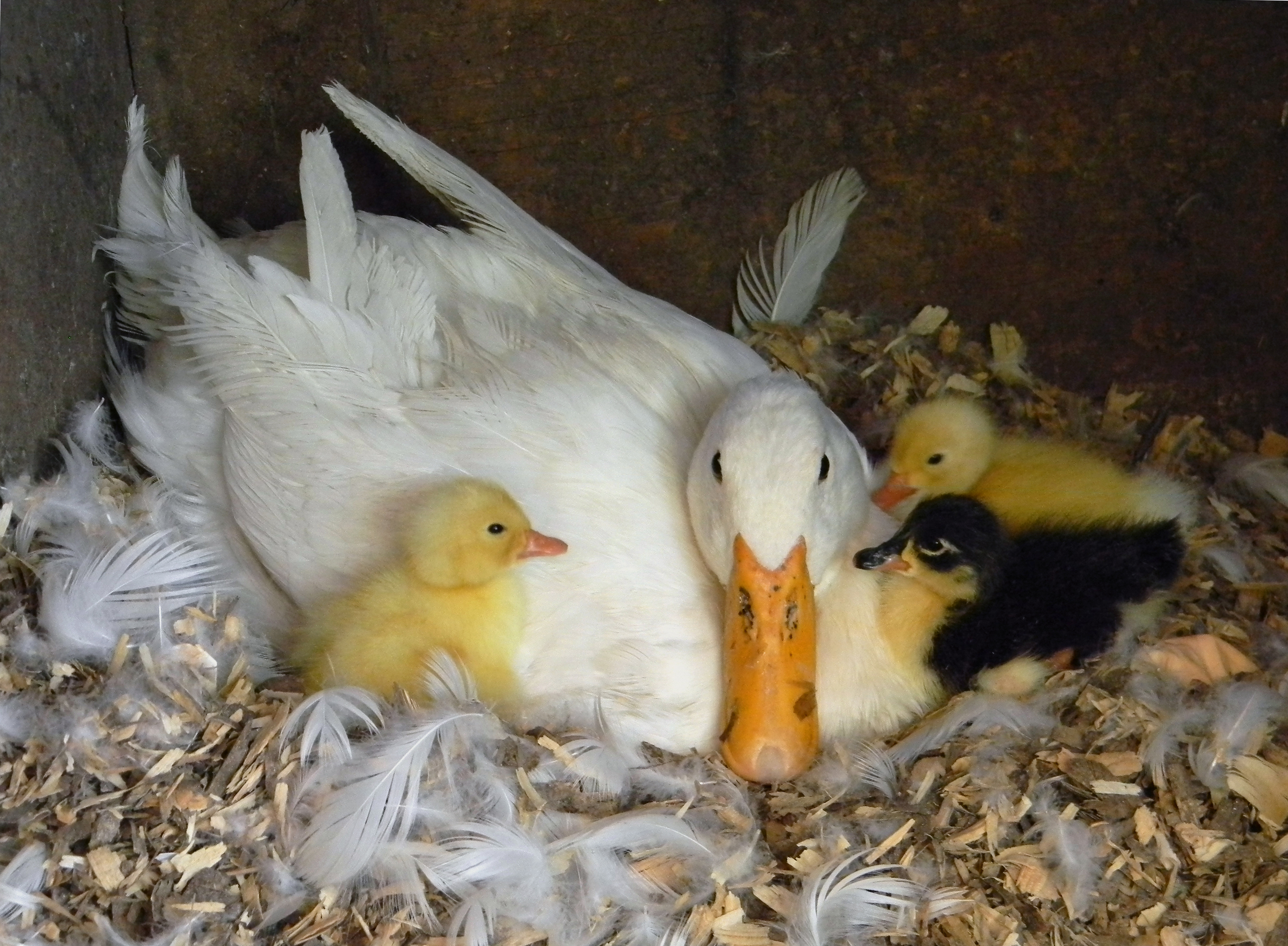 A domesticated Pekin duck with day-old ducklings. In this case, a Pekin and Magpie were interbred, resulting in two yellow hatchlings and one black/yellow hatchling.